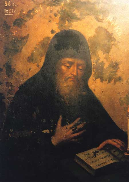 Saint Zinon of Kyiv Caves